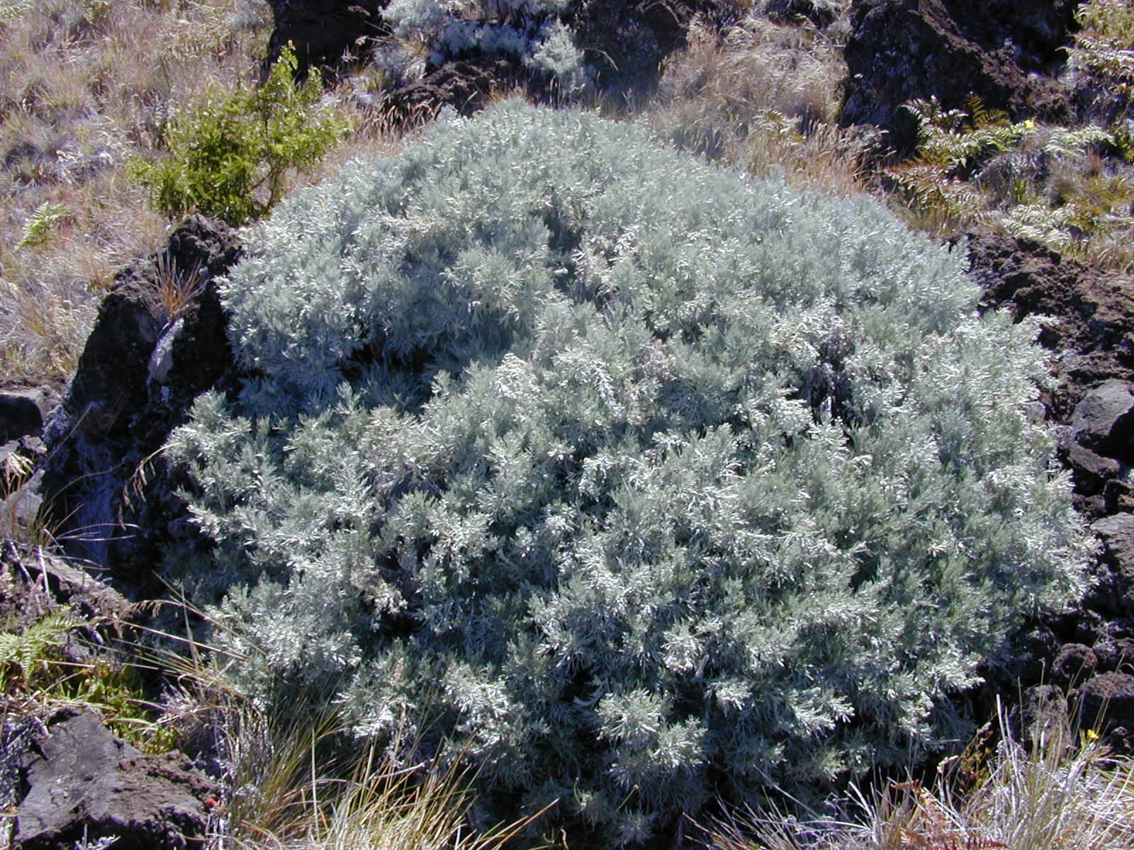 Artemisia mauiensis (habit). Location: Maui, Waikau trail Haleakala National Park